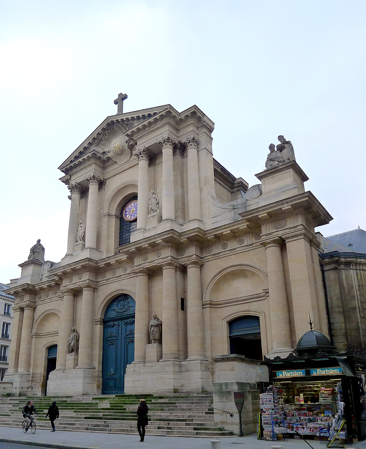 Saint-Roch church - Paris